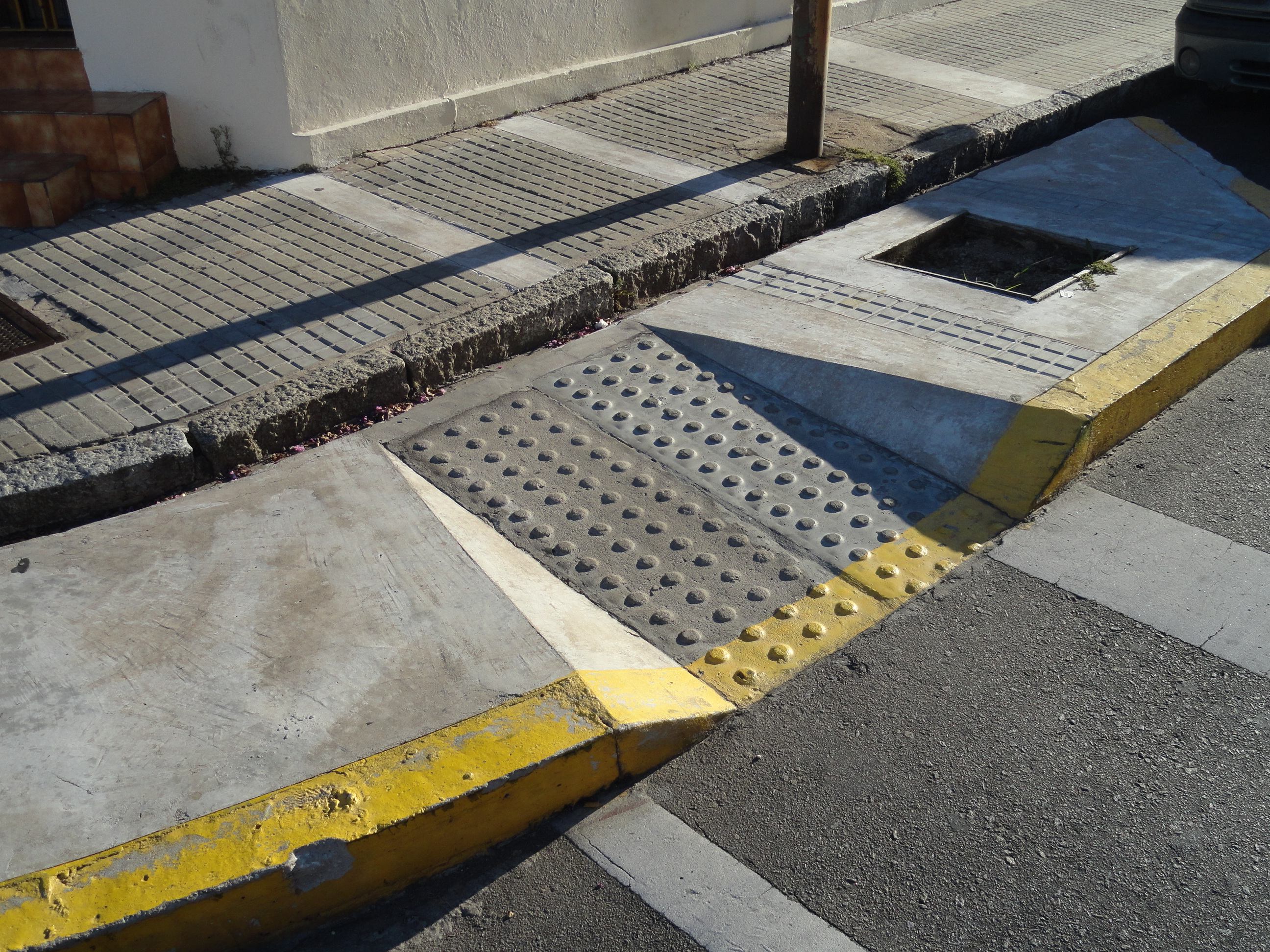 Wheelchair ramp in Maldonado, Uruguay. The upper part of the ramp is next to a gutter, which makes it useless for people on wheelchairs.